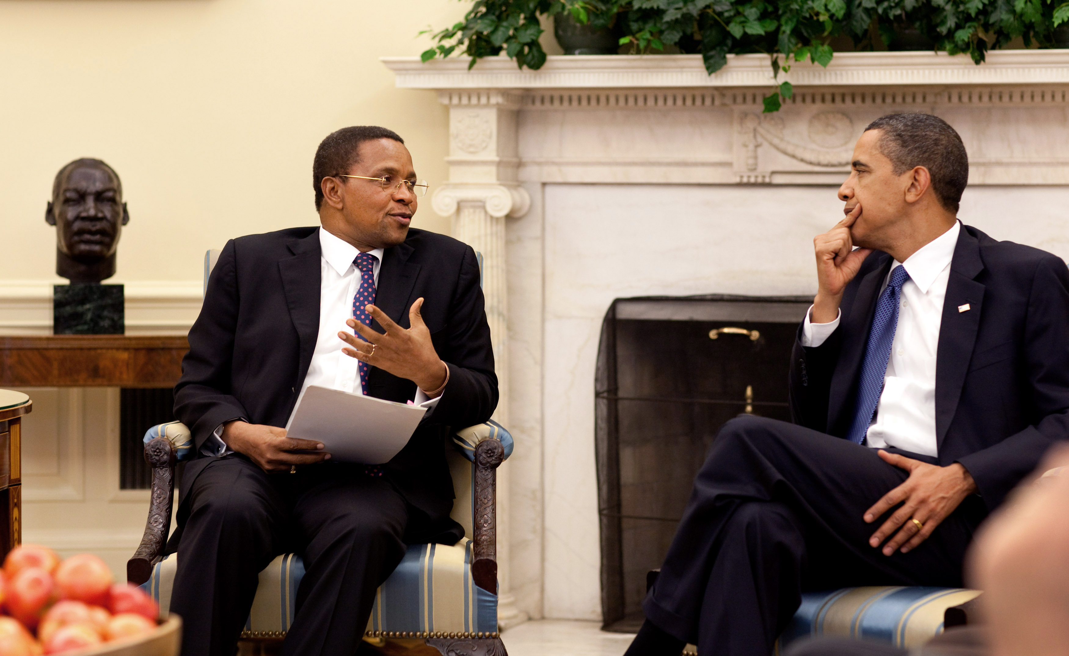 President Barack Obama meets with Tanzania President Jakaya Kikwete in the Oval Office Thursday, May 21, 2009. This was the President's first meeting with an African Head of State. A bust of Martin Luther King is at far left. (Official White House photo by Pete Souza)